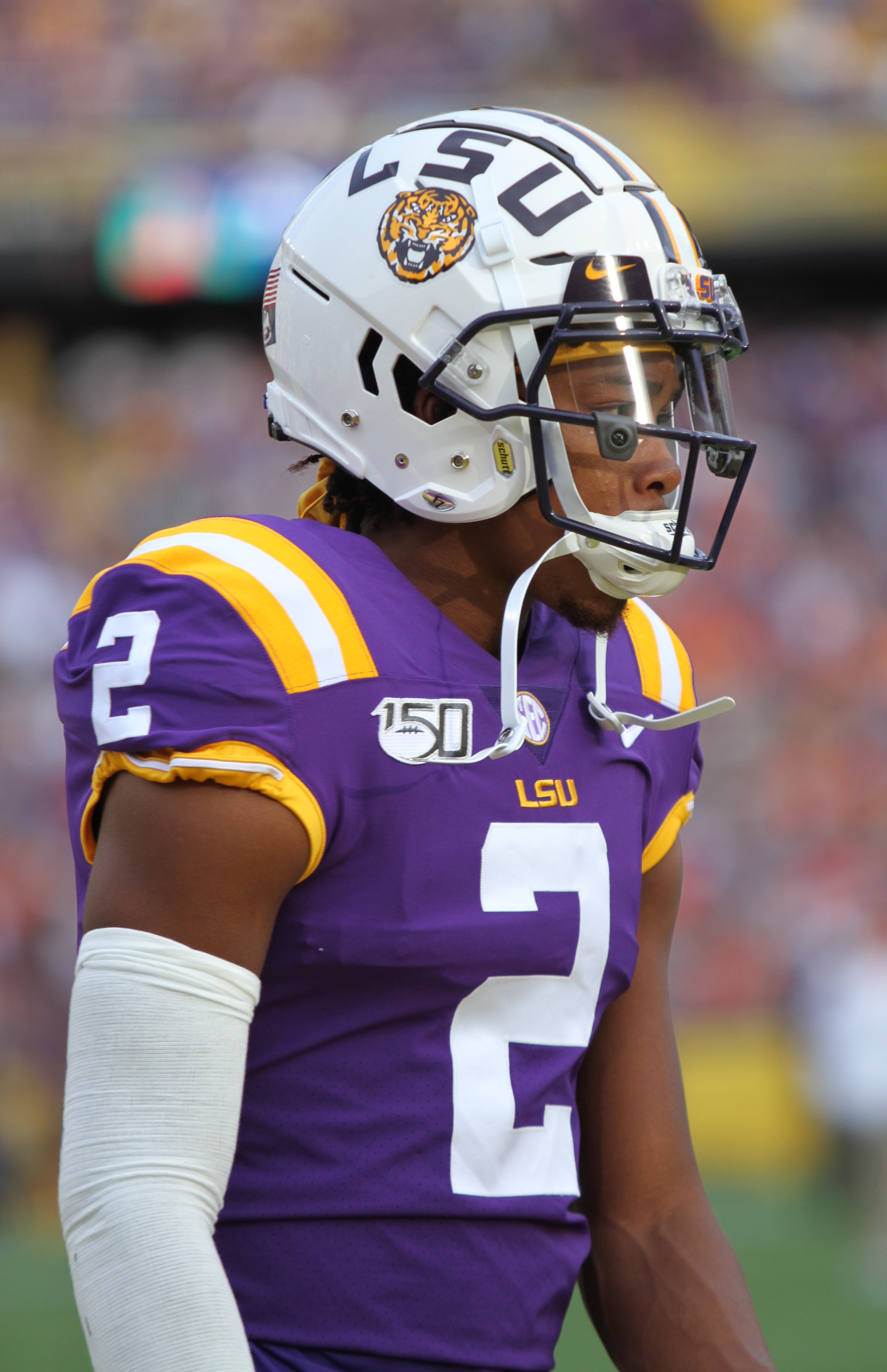 LSU Tigers vs Northwestern LA Demons, September 14, 2019, Tiger Stadium, Baton Rouge, Louisiana, Tammy Anthony Baker, Photographer@tabinla @tmabaker